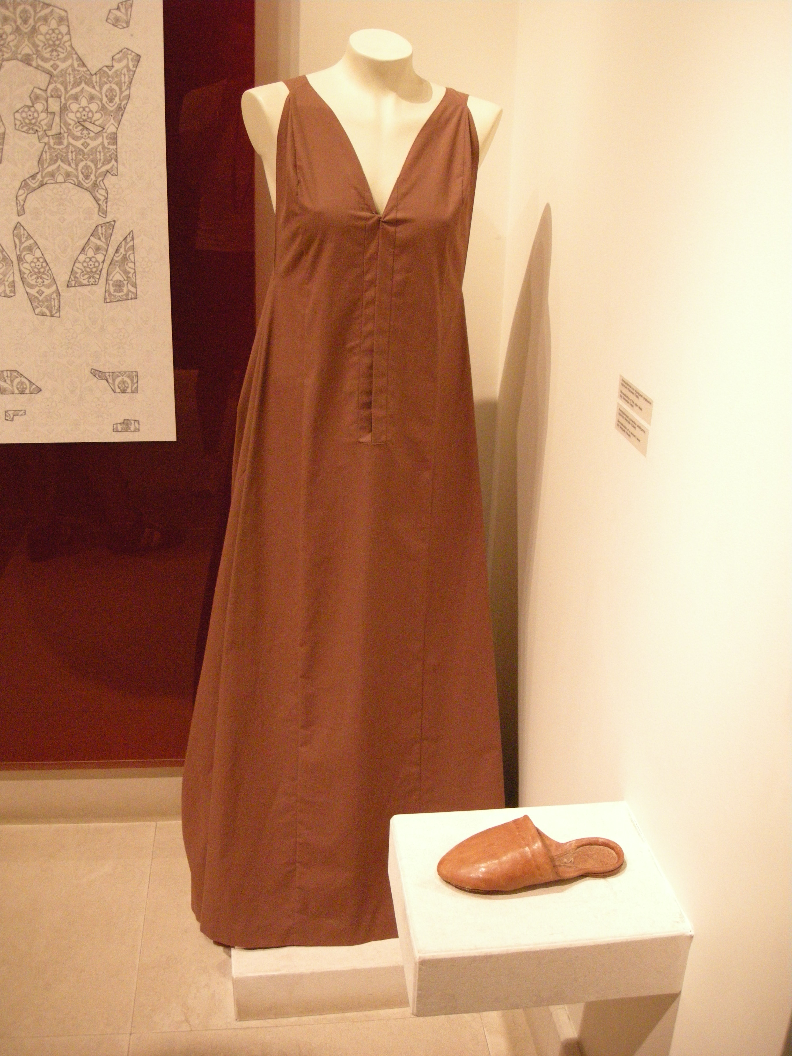 Museum of Mystras, dress of the mummy of mystra, riconstruction